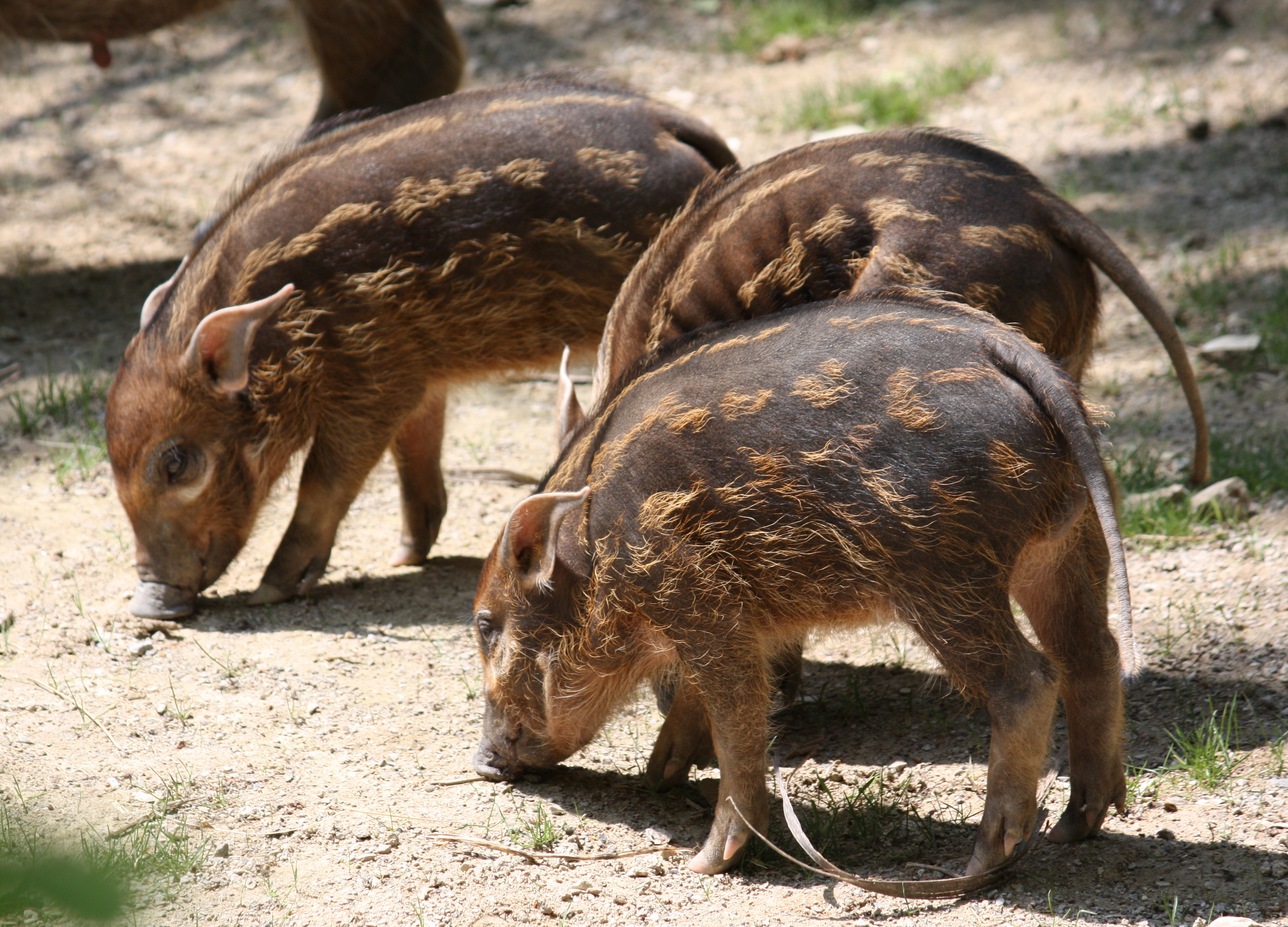 Red River Hogs Potamochoerus porcus at Cincinnati Zoo